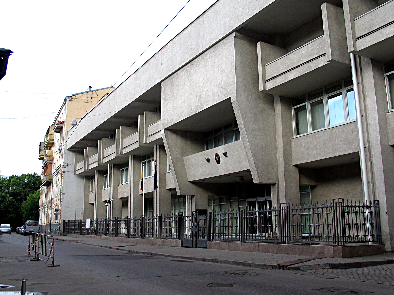 Embassy of Lithuania in Moscow (Borisoglebsky Lane, 10)